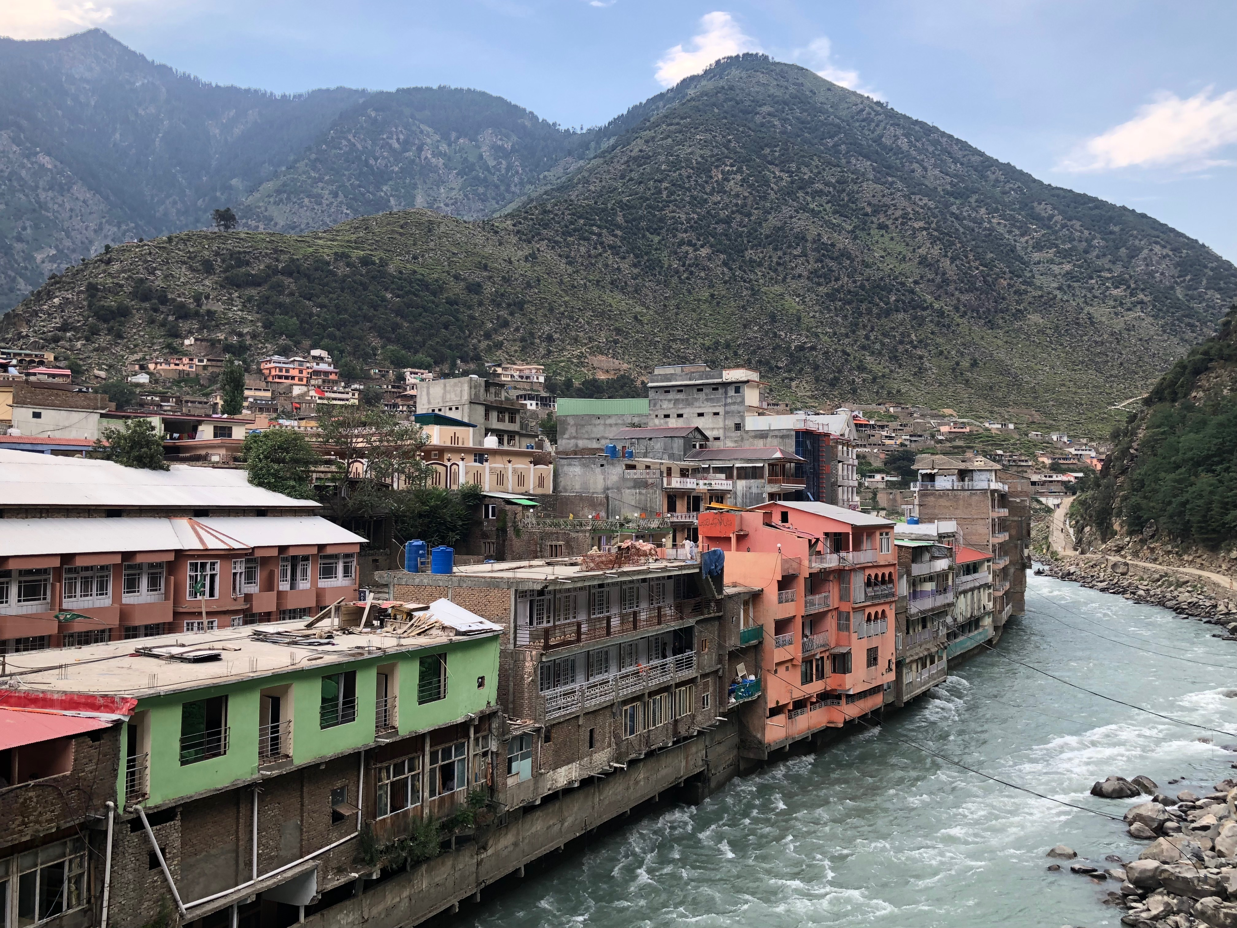 Bahrain town in Swat is the main cultural and business hub of the Torwali community speaking the Torwali language.